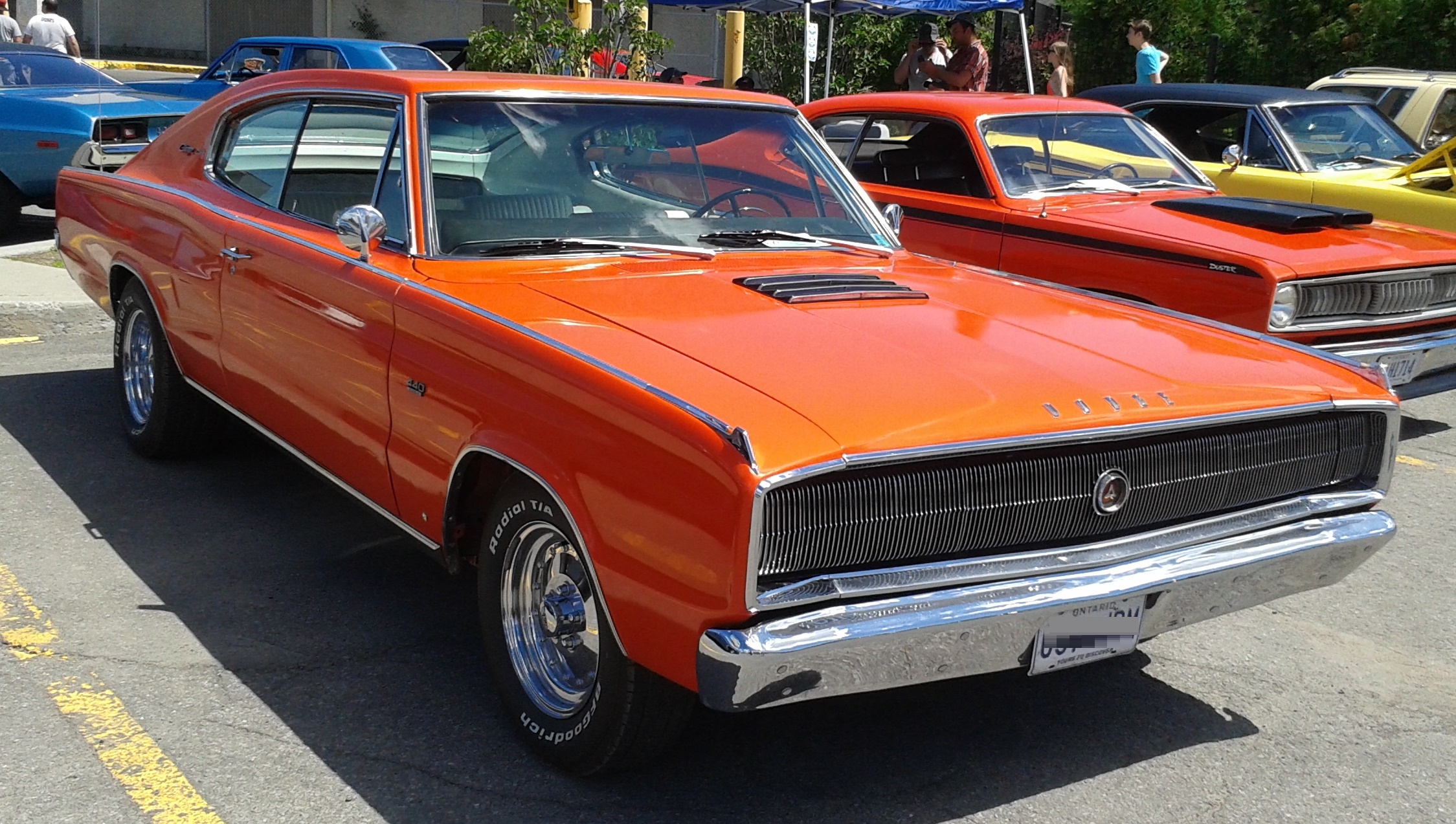 1966 Dodge Charger photographed in Salaberry De Valleyfield, Quebec, Canada at Rassemblement Mopar Valleyfield 2014.